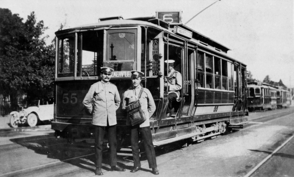 A tram driver and conductor stand in front of Municipal Tramways Trust Type A1 tram number 55 in Victoria Square, Adelaide. A destination sign ("Walkerville") is visible between them and a route number ("6") above them. Another conductor is sitting in one of the open cross-benches. An early motor car is visible, as are two other trams in the background. The tram was one of 17 rebuilt from Type B "toastrack" trams in 1917, which halved the number of exposed seats by construction of a closed saloon.